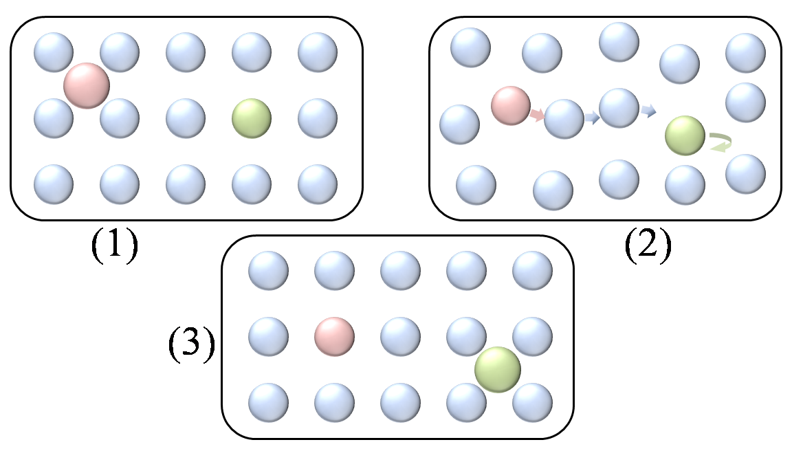 Diagram of long range atomic exchange mechanism for surface diffusion at a square lattice. Adatom (pink), resting at surface (1), inserts into lattice disturbing neighboring atoms (2), causing one of the original substrate atoms emerge as an adatom (green) (3). Not to scale. Prepared using Microsoft Powerpoint 2007.